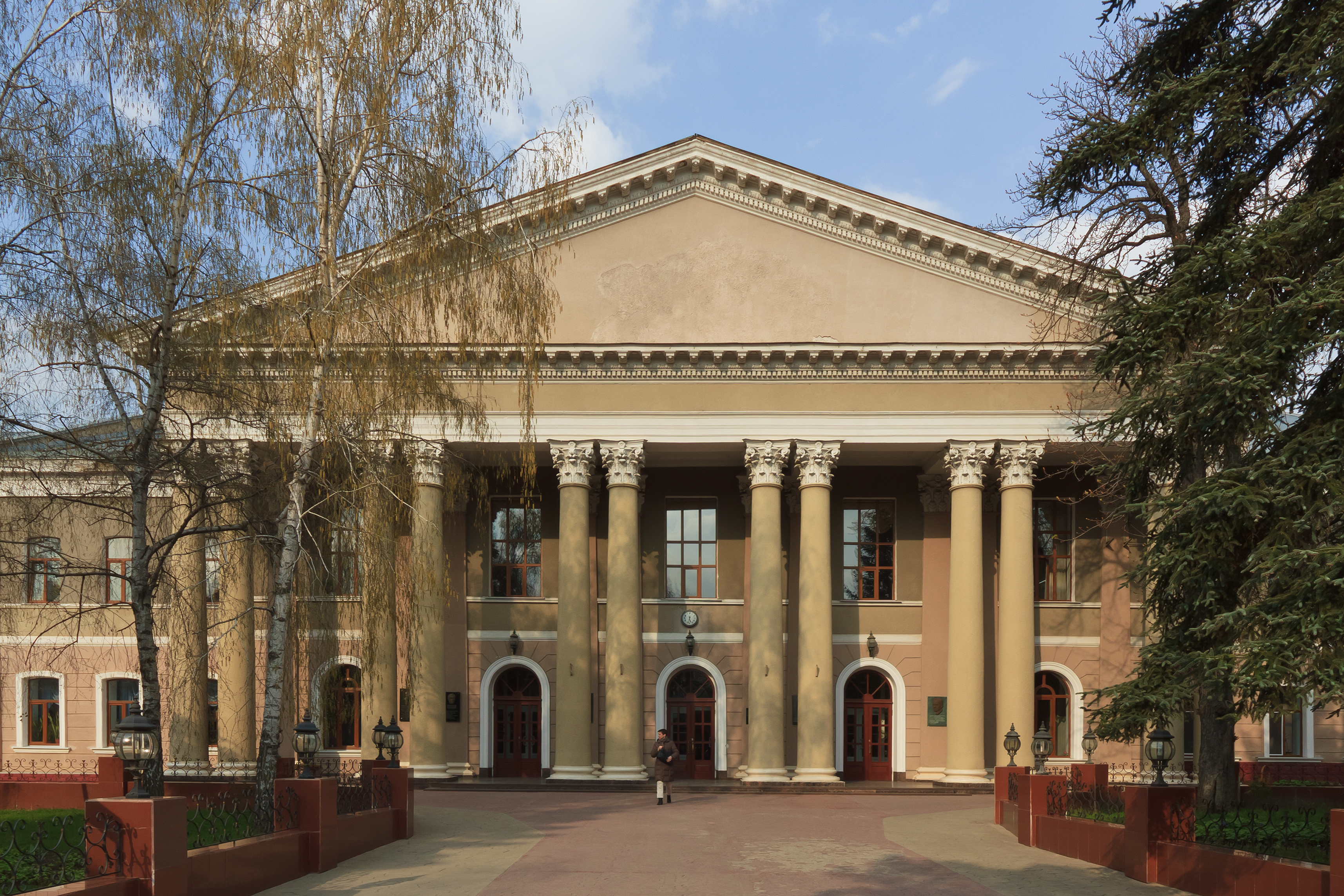 The building of the State Medical University in Simferopol, Crimean Peninsula.